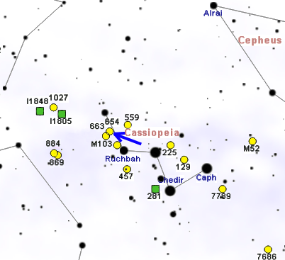 Map of NGC 654